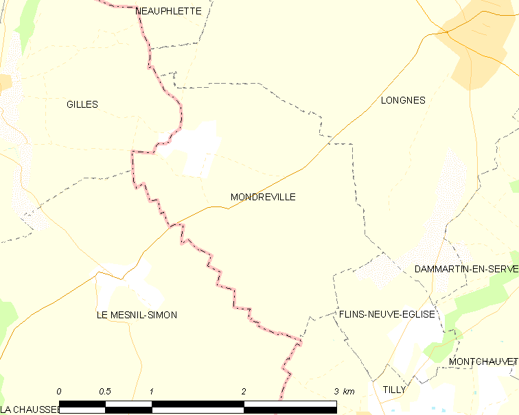 Map of French municipality Mondreville